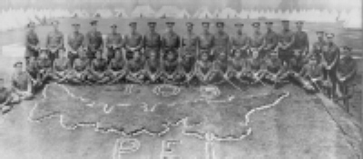 The 105th Battalion (PEI Highlanders) CEF was authorized on 22 December 1915 and was in training in Canada until 15 July 1916. It trained for one month from 13 June to 13 July 1916 at Camp Valcartier in Quebec, where this photograph was taken.